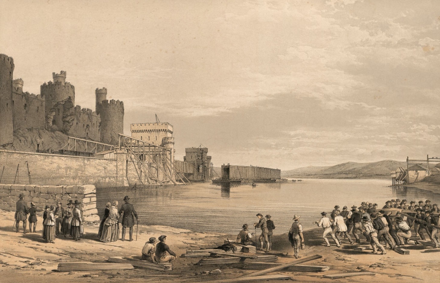 Several men turning capstain, Castle, steam train.